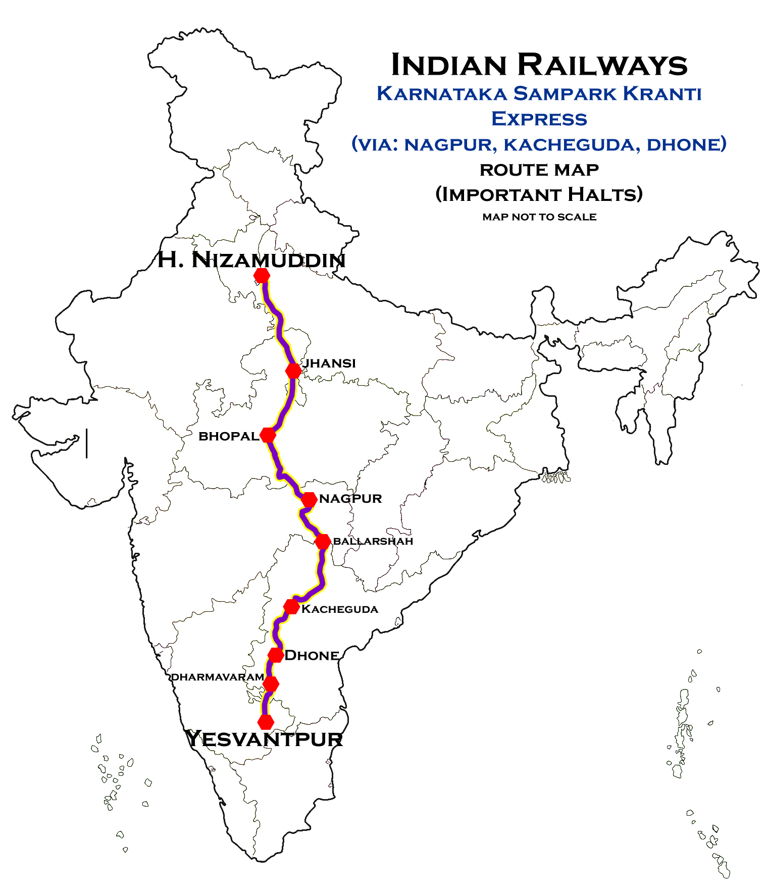 (NZM - YPR) Karnataka Samparkkranti Express (via Kacheguda) Route map